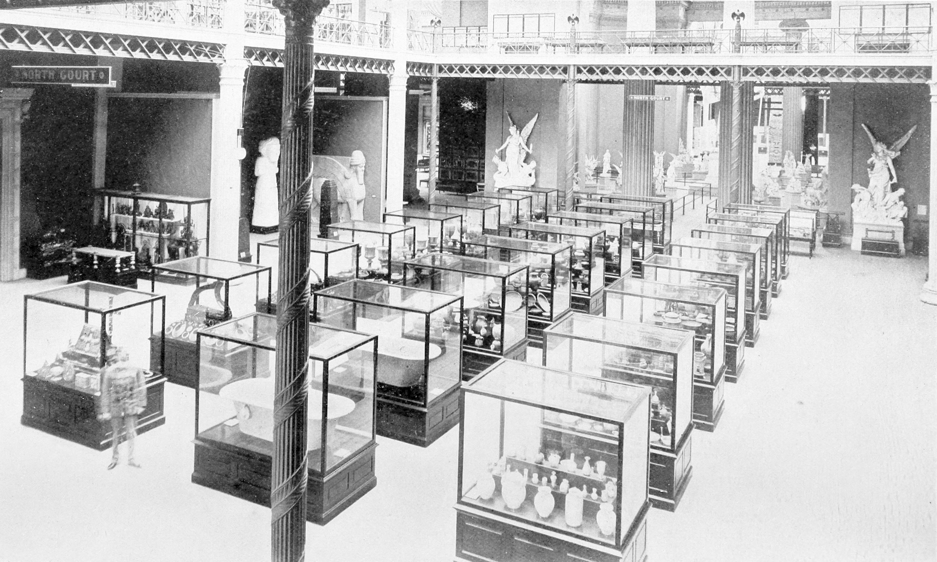 North Court, Field Columbian Museum. Title: Annual report of the Director to the Board of Trustees for the year ... Year: 1895 (1890s) Authors: Field Columbian Museum Subjects: Field Columbian Museum; Natural history Publisher: Chicago, U. S. A. : Field Columbian Museum Text Appearing Before Image: ' Text Appearing After Image: '